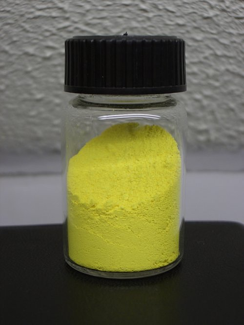 Cadmium sulfide, a yellow powder